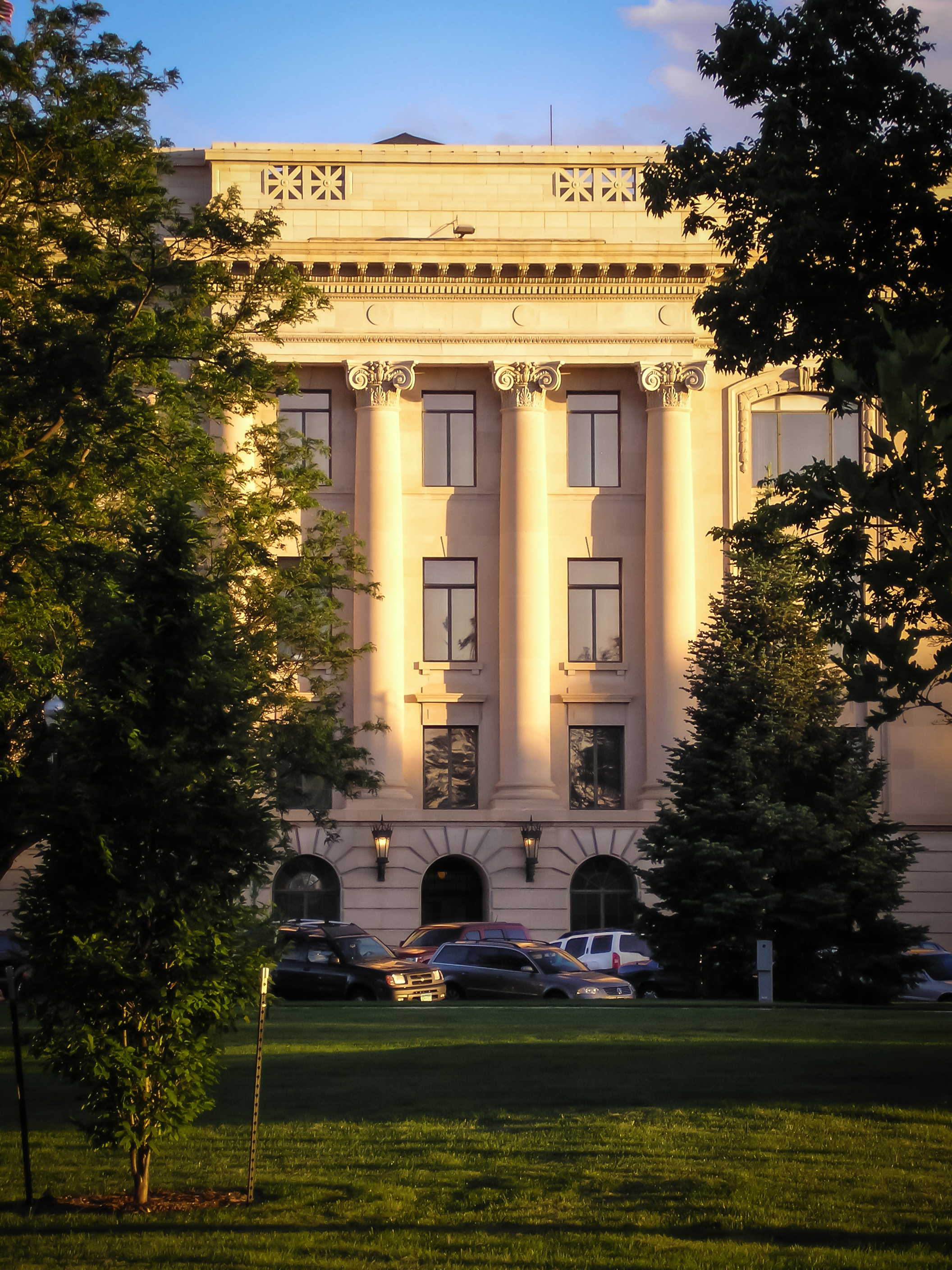 The Weld County Courthouse in Greeley, Colorado, USA, as viewed looking south from Lincoln Park.